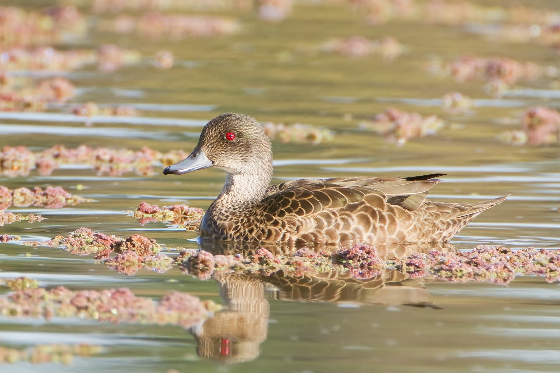 Grey Teal (Anas gracilis), Gould's Lagoon, Tasmania, Australia